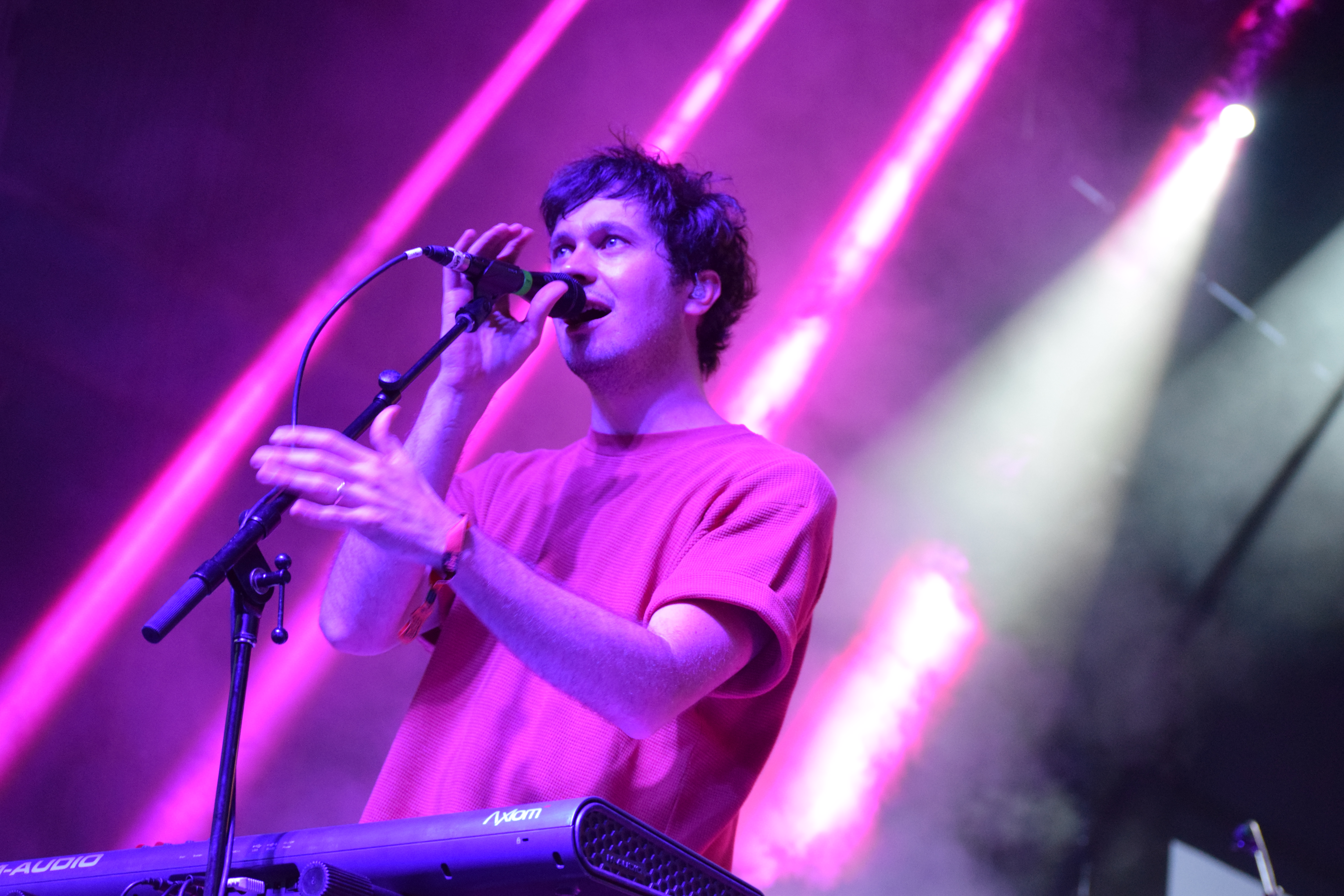 Washed Out performing live in 2016.